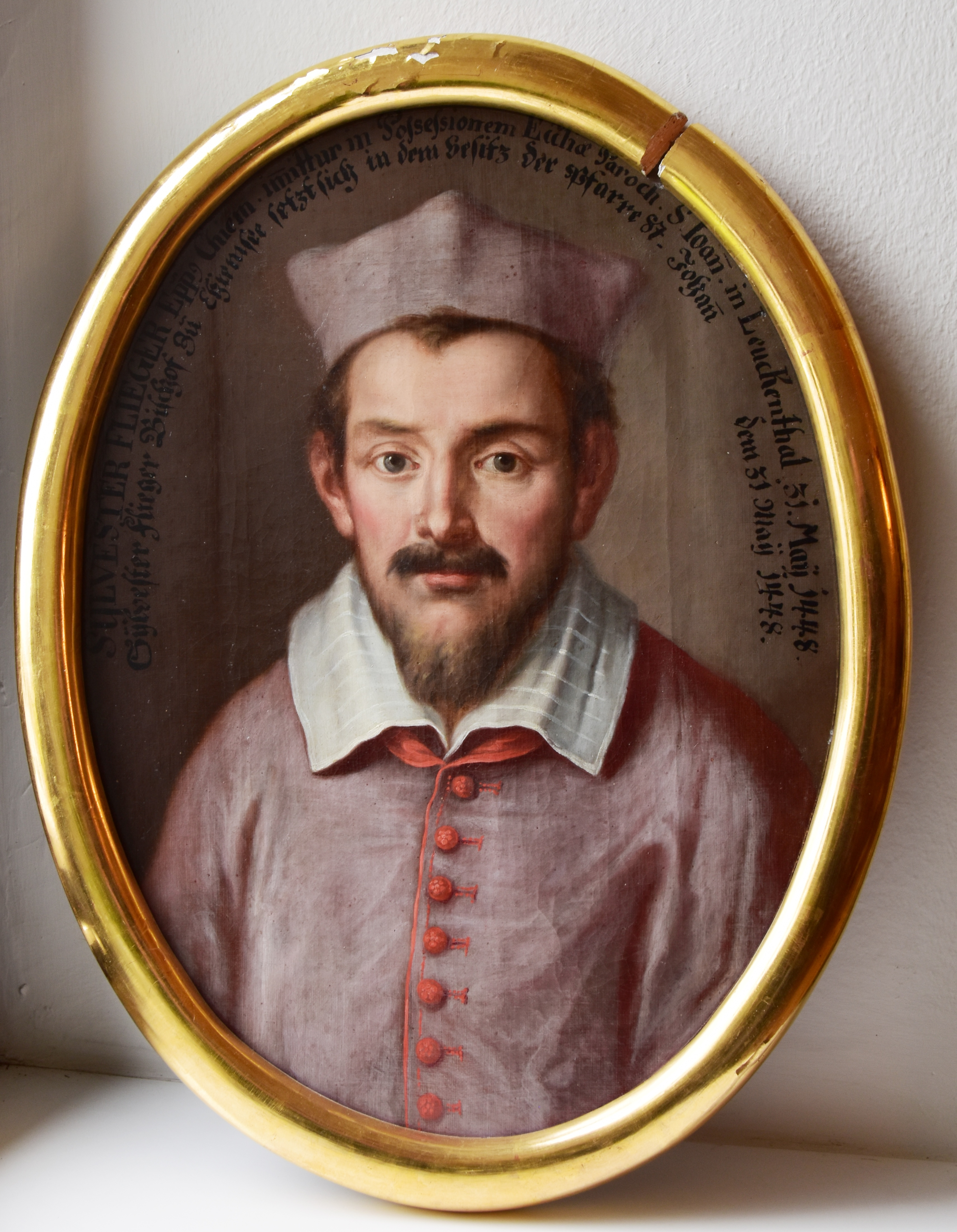 Silvester Pflieger, Bishop of Chiemsee, portrait in the deanery of St. Johann in Tirol